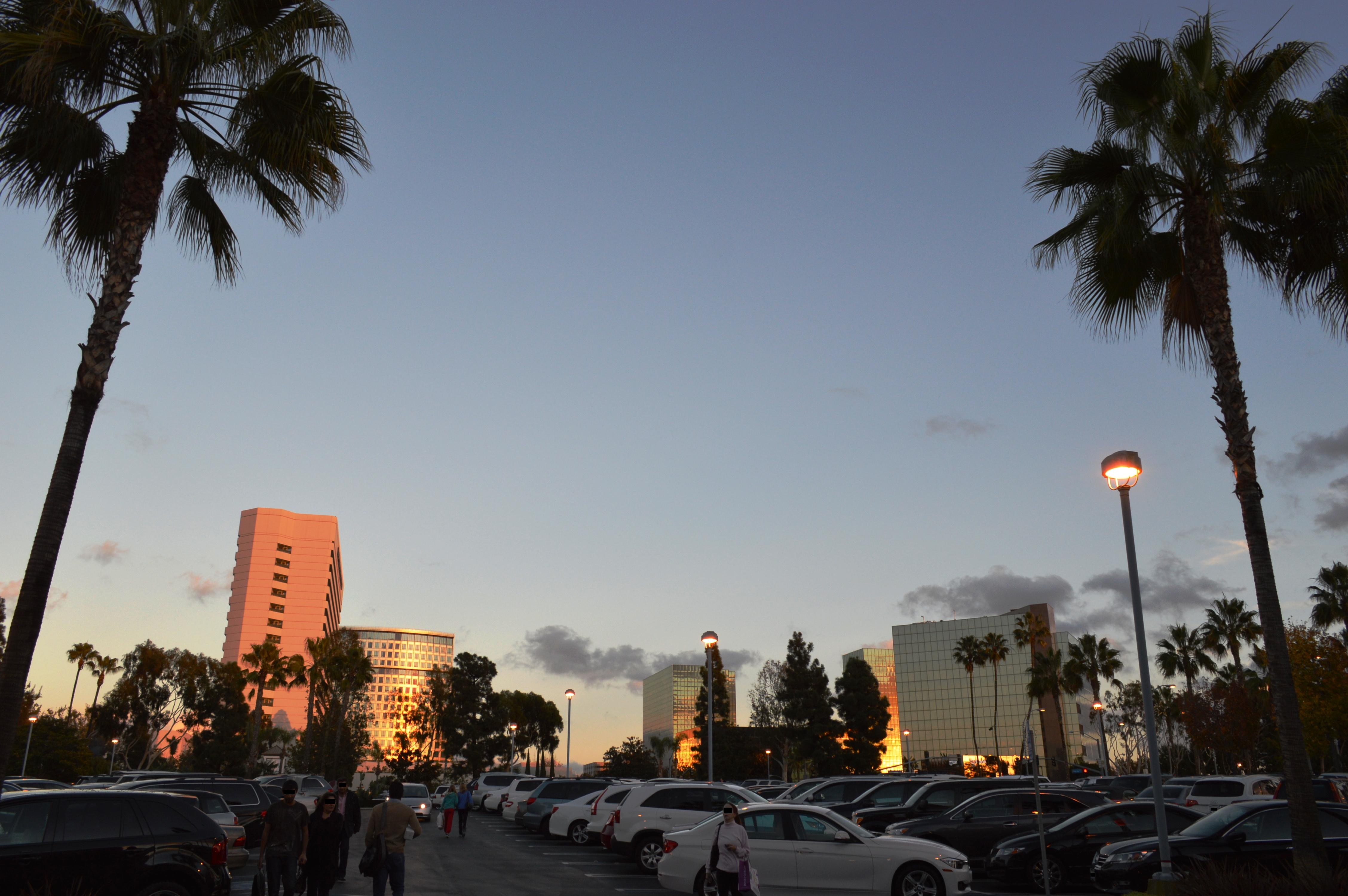 Commercial buildings on the east side of Bristol Street as seen from this mall entrance of South Coast Plaza (SCP) in Costa Mesa, California, U.S.A. The Westin South Coast Plaza and the Plaza Tower on left are considered part of SCP.[1]